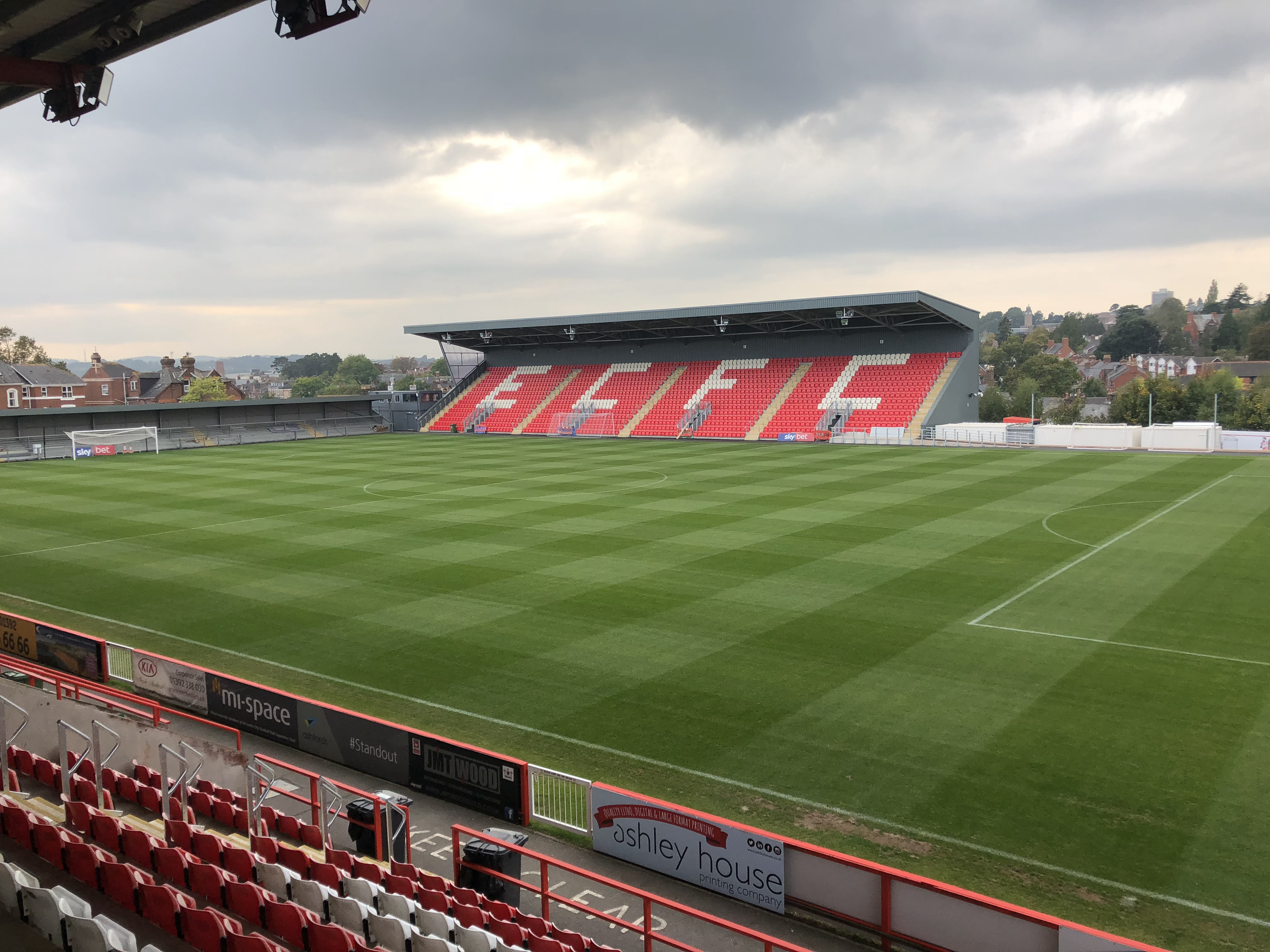 The newly constructed Adam Stansfield Stand, prior to the stand's name and sponsorship signage being fitted.